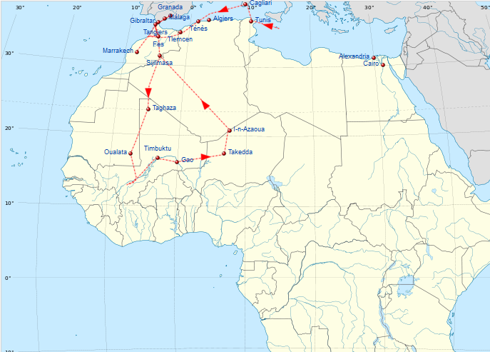 Ibn Battuta itinerary of 1349-1354